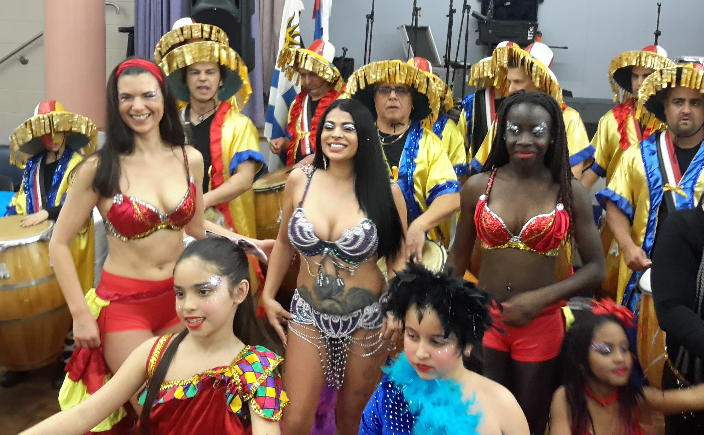 Tambores Del Sur performing at the Uruguayan Social Club Independance day celebration.